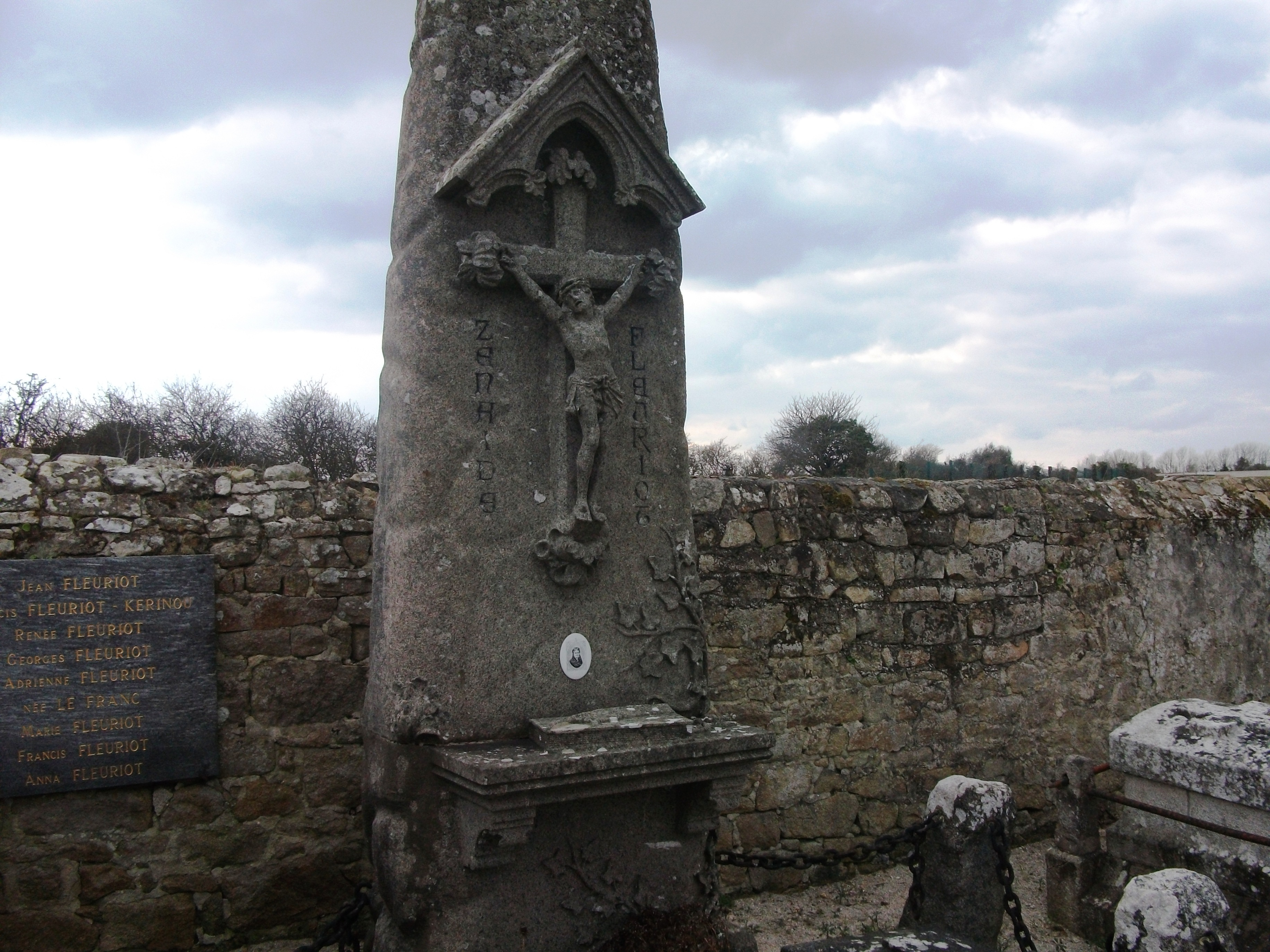 grave of the writer Zenaide Fleurot in Locnmariaquer